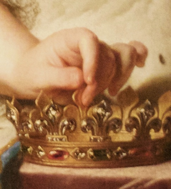 A coronet of a child of France (from the portrait of Elisabeth Charlotte of the Palatinate by Rigaud in 1713